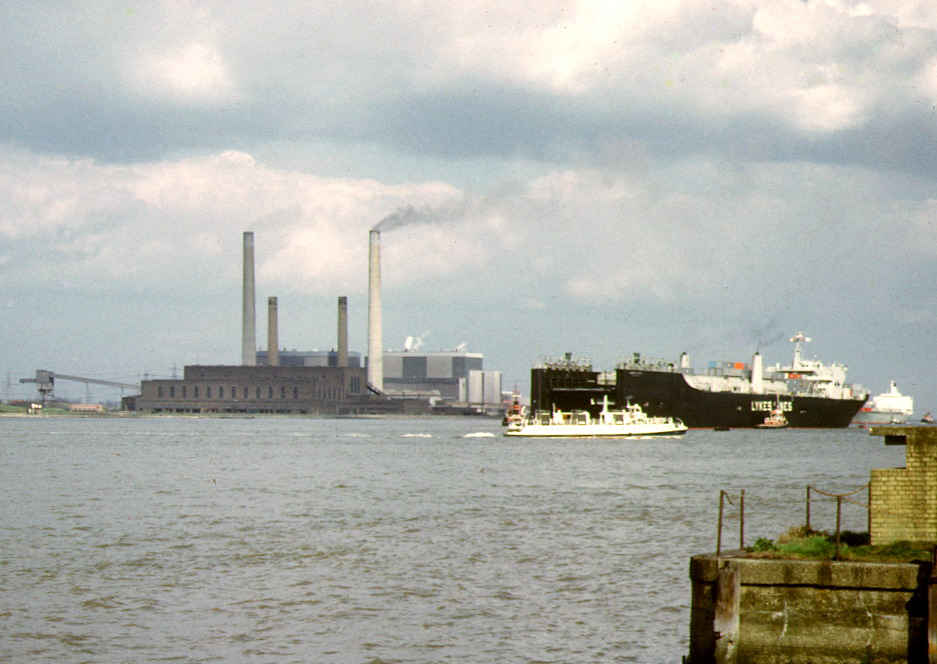 Tilbury Power Station from the south-west in 1973, with the 'A' station in the foreground.